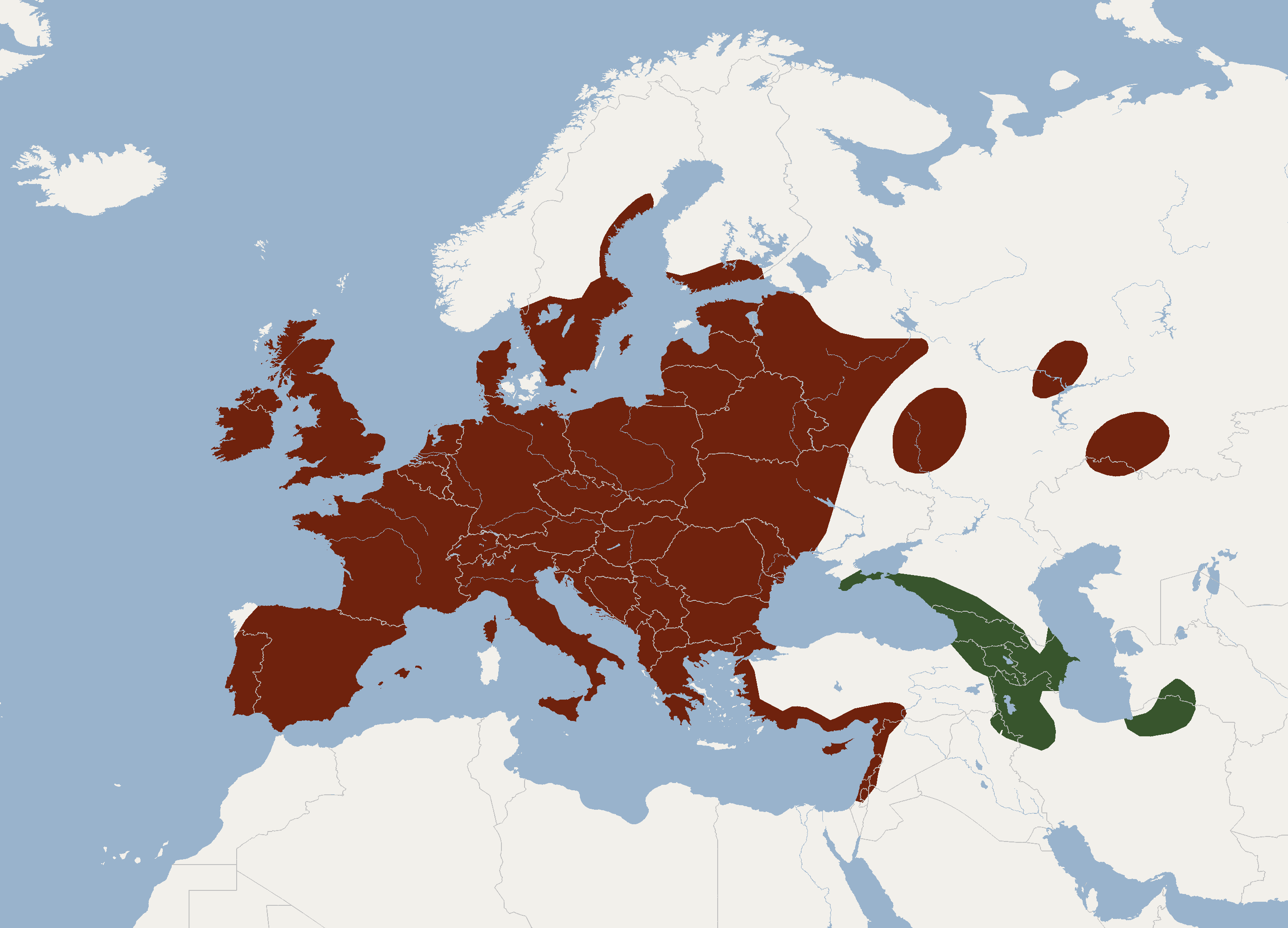 According to . Subspecies range: M.n.nattereri in brown, M.n.tschuliensis in green